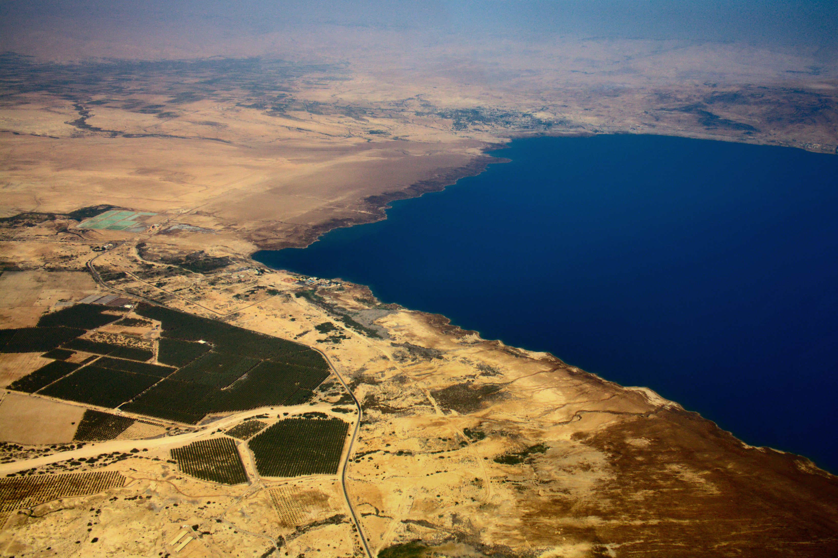 Aerial view of the Dead Sea. At the bottom, crossing the plantations is Wadi Og